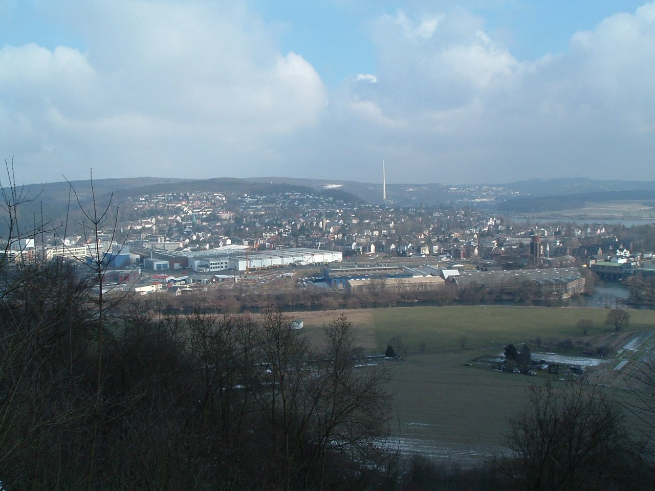 You can see the city Wetter (Ruhr). The image was taken from castle Volmarstein. In the foreground you can see the industrial area Wetter which border on the river Ruhr. In the central of this image you can see the old city center of Wetter (Ruhr) which is also called Alt-Wetter. There ist a very nice historical city hall, too. You can also see the very significant stack called "Cuno". This stack is a building which is part of the Cuno heating power station in Herdecke. In the background are the Ardey hills.